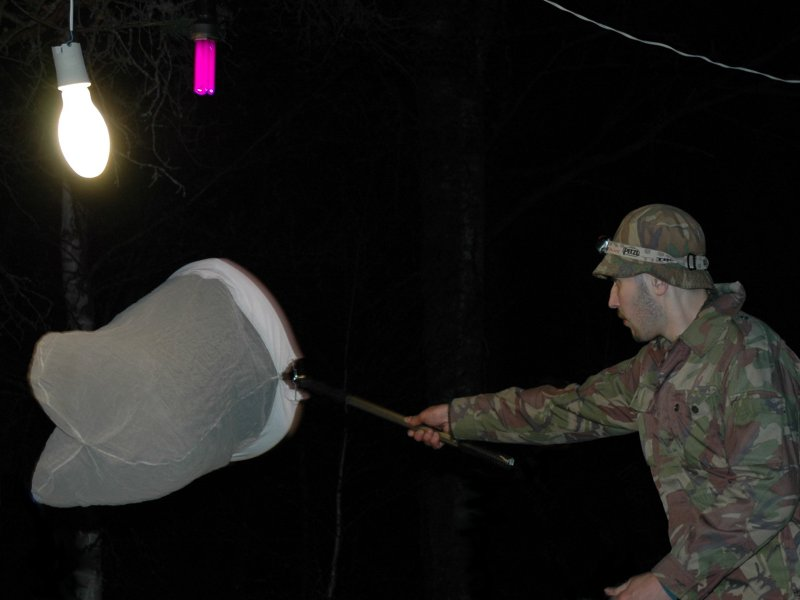 Entomologists using blacklight to attract moths in Leningrad region.